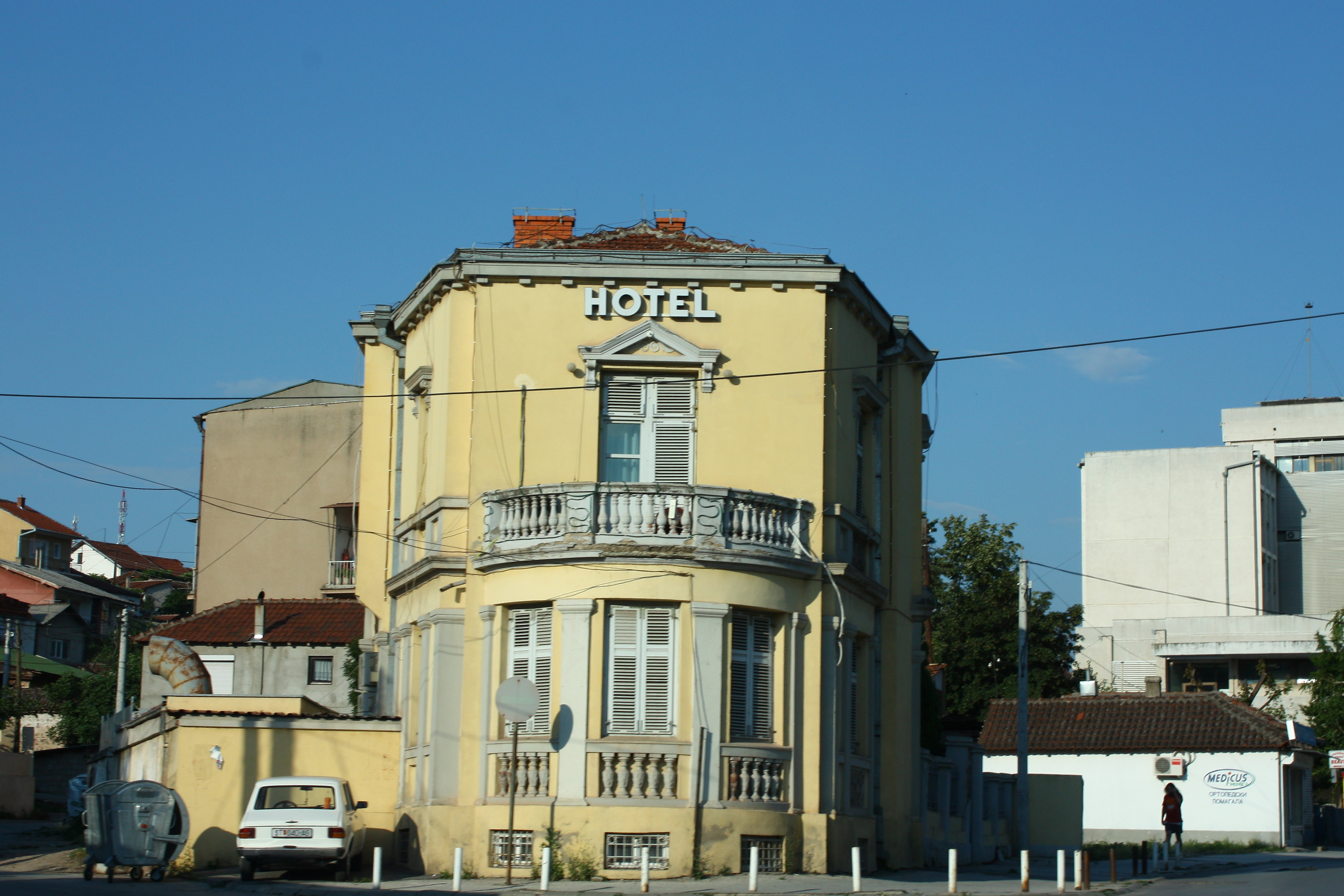 Štip, Macedonia